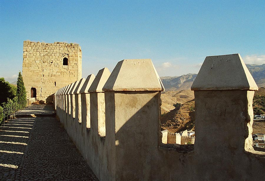 Alcazaba, the moorish castle built in the beginning 2nd millenium and widely destroyed in 1410, when the catholic kings conquered the city of Antequera. In Andalucia, Espana